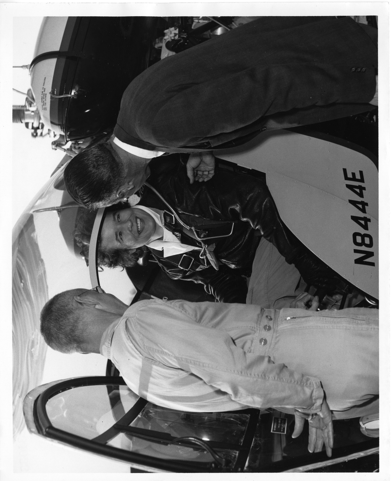 Creator: Bell Helicopter Company Subject: Strother, Dora Jean Dougherty 1921- Ducayet, E. J Buyers, R. C Bell Helicopter Company New York University Type: Black-and-White Prints Date: 1961 Topic: Women engineers Women scientists Aerospace engineering Helicopter pilots Test pilots Local number: SIA Acc. 90-105 [SIA-SIA2008-1409] Summary: Dora Jean Dougherty Strother (b. 1921) (center) was a human factors engineer and test pilot for Bell Helicopter Co. in 1961 when this photograph was taken, and had just broken a helicopter altitude record (at 19,406 feet) in a Bell 47G-3. She was being congratulated by Bell chief test pilot R.C. Buyers (at left) and company president E.J. Ducayet (at right). Strother earned the first Ph.D. in aviation science from New York University and received many awards during her career for achievements in flight and engineering. Cite as: Acc. 90-105 - Science Service, Records, 1920s-1970s, Smithsonian Institution Archives Persistent URL:Link to data base record Repository:Smithsonian Institution Archives View more collections from the Smithsonian Institution.